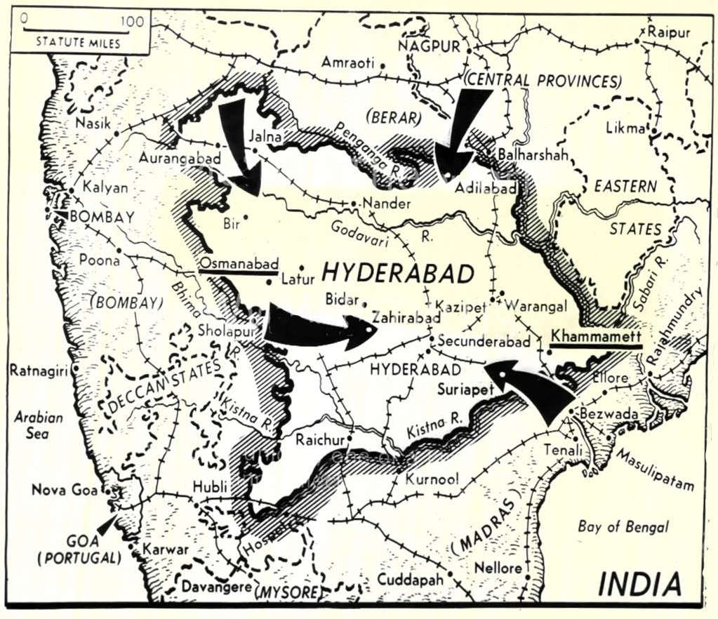 Movement of Indian troops during Operation Polo